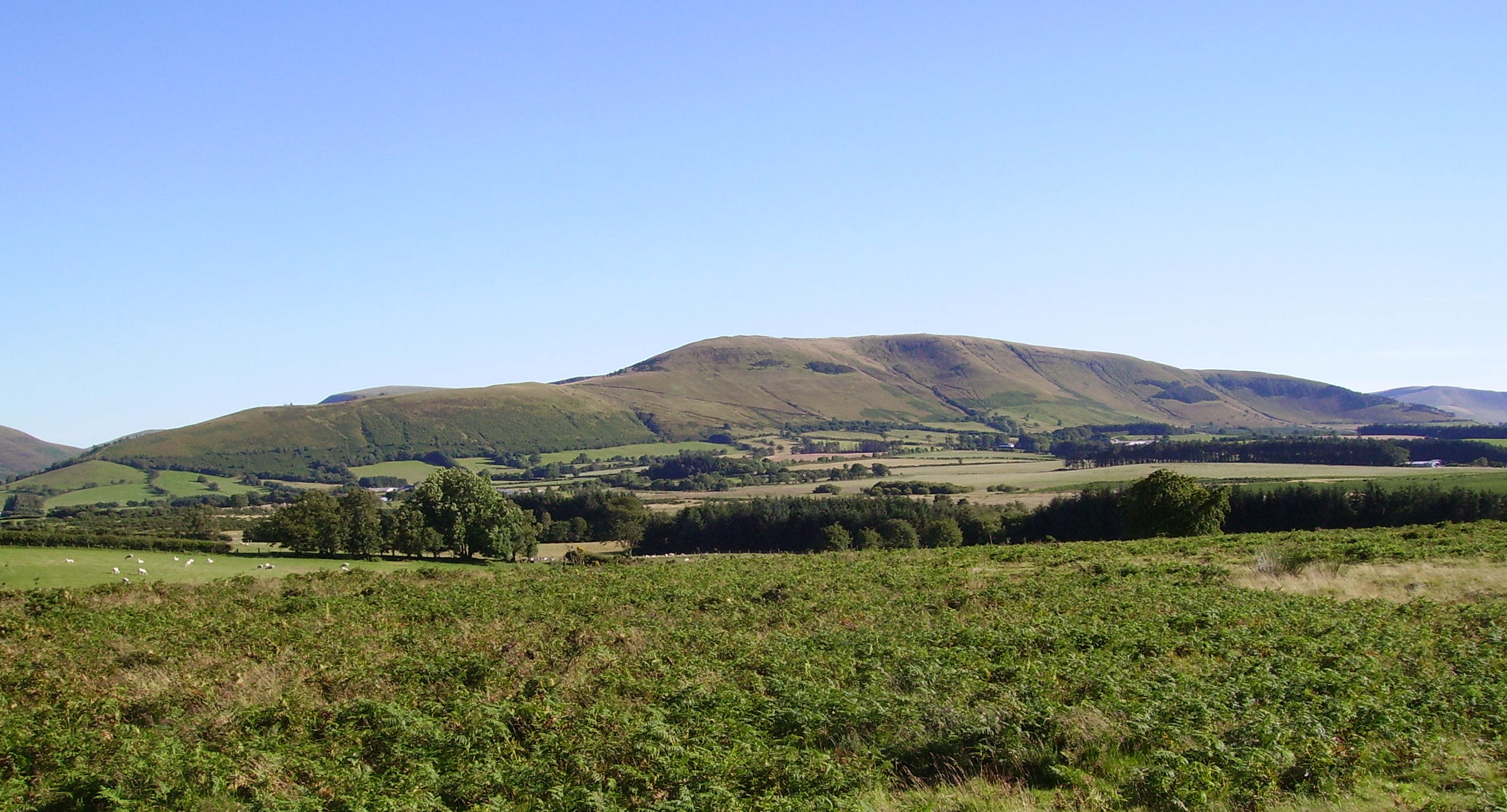 view of Brecon Beacons National Park in Wales